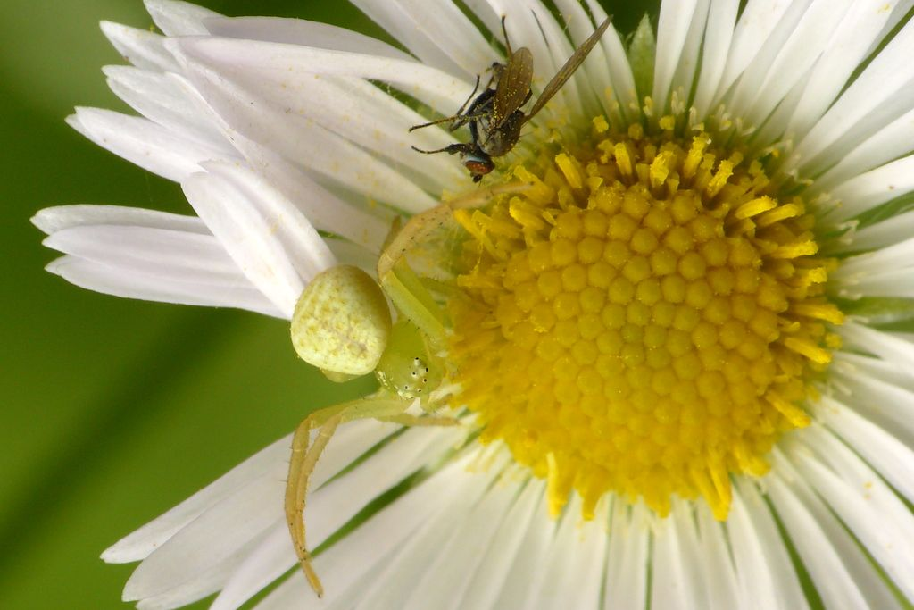 Misumena vatia